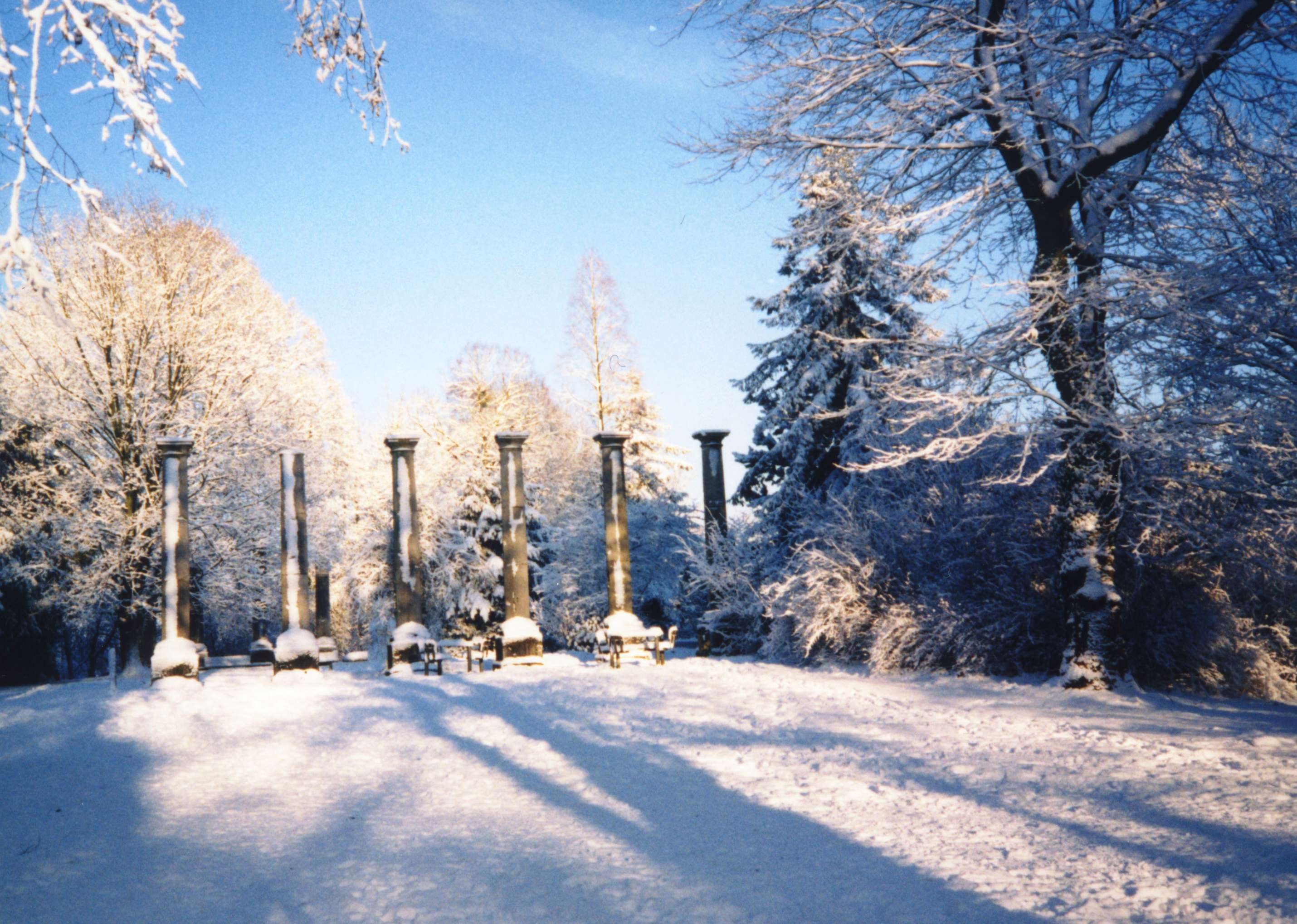 Columns of the former Belvedere building destroyed in WWII. The place is nicknamed "Acropolis of Aachen" by some of the locals. Photo by User:Ahoerstemeier